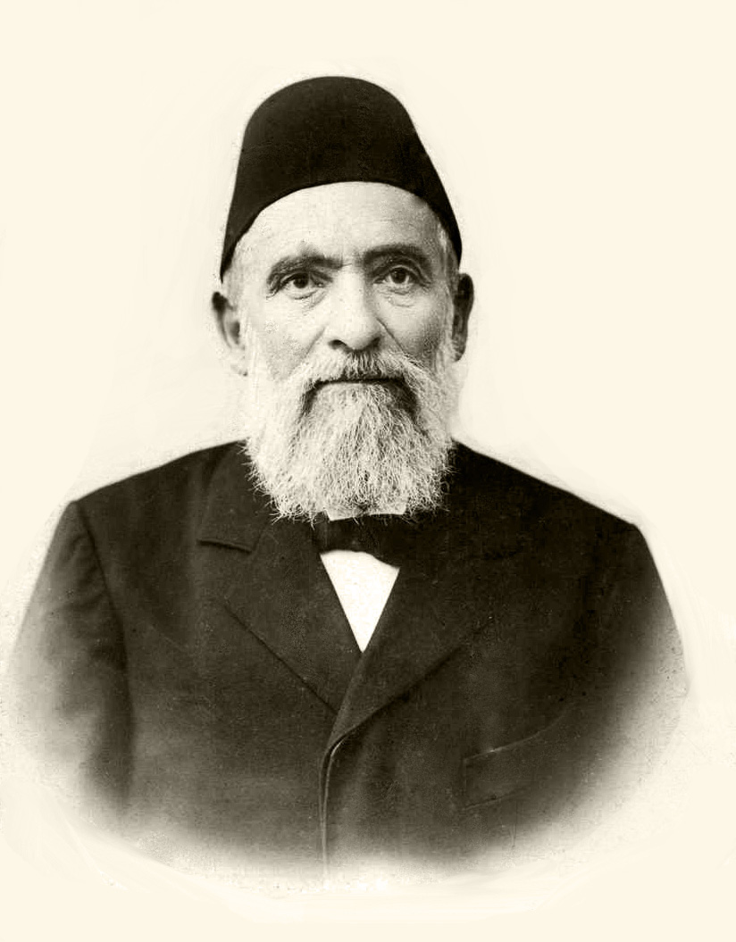 Picture of Yehoshua Yelin